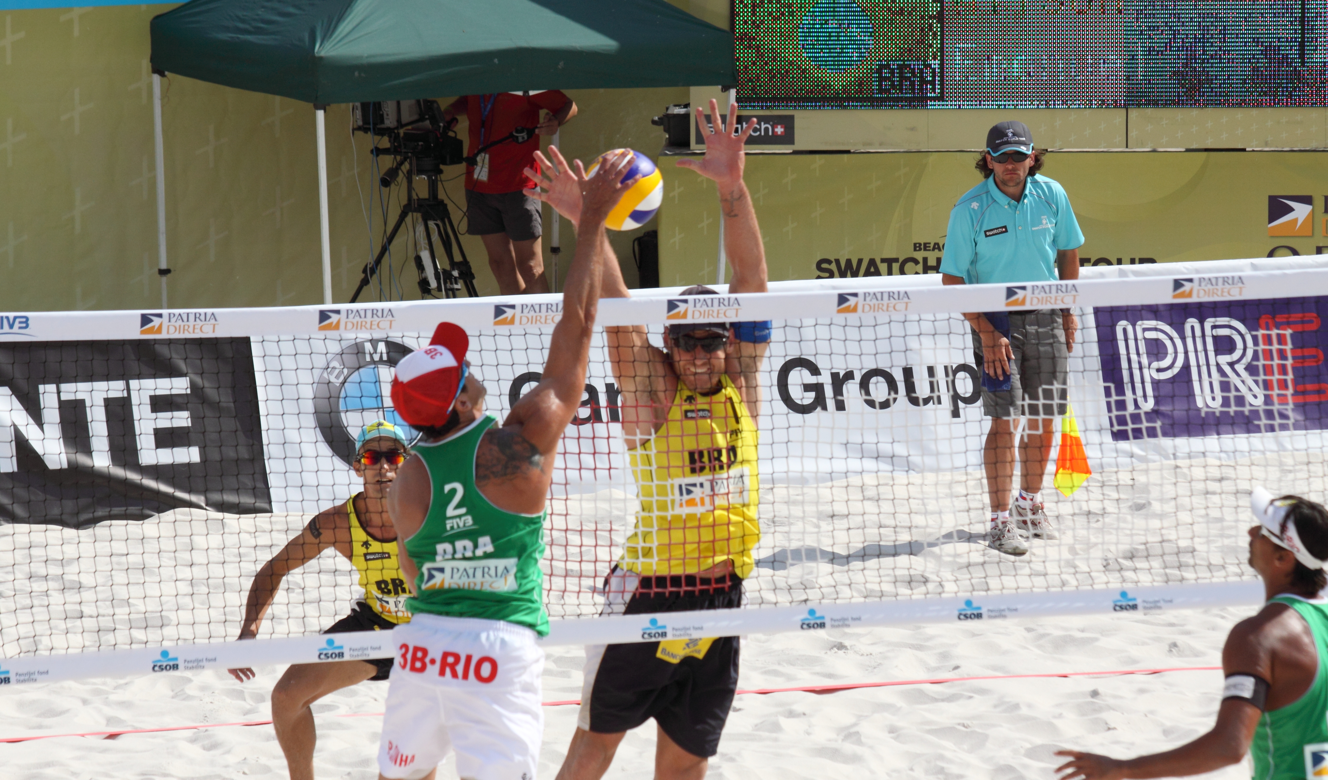 Pedro Cunha attacking against a block by Alison Cerutti during the Patria Direct Open 2012 final match